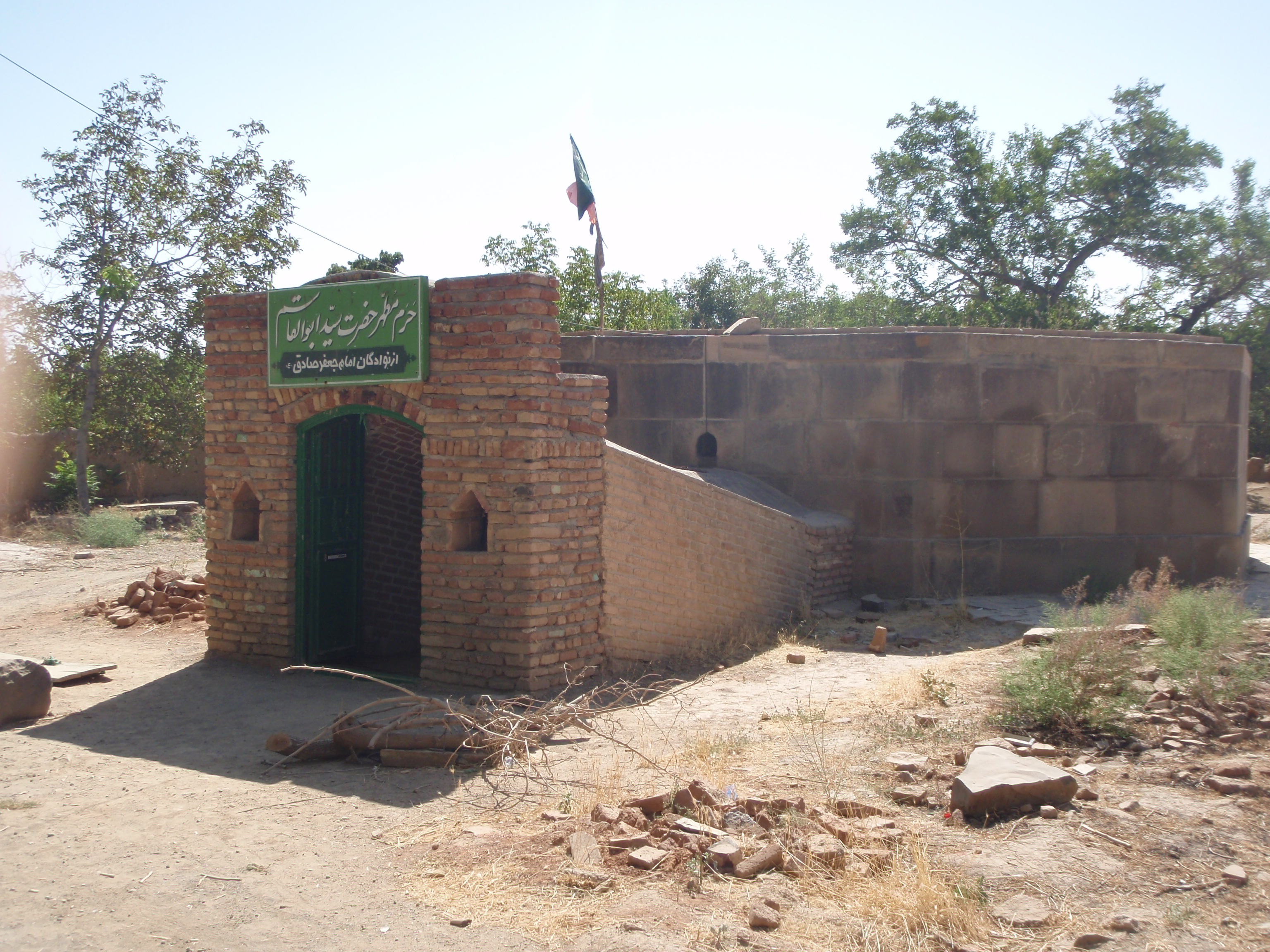 emamzade gasem ajabshir